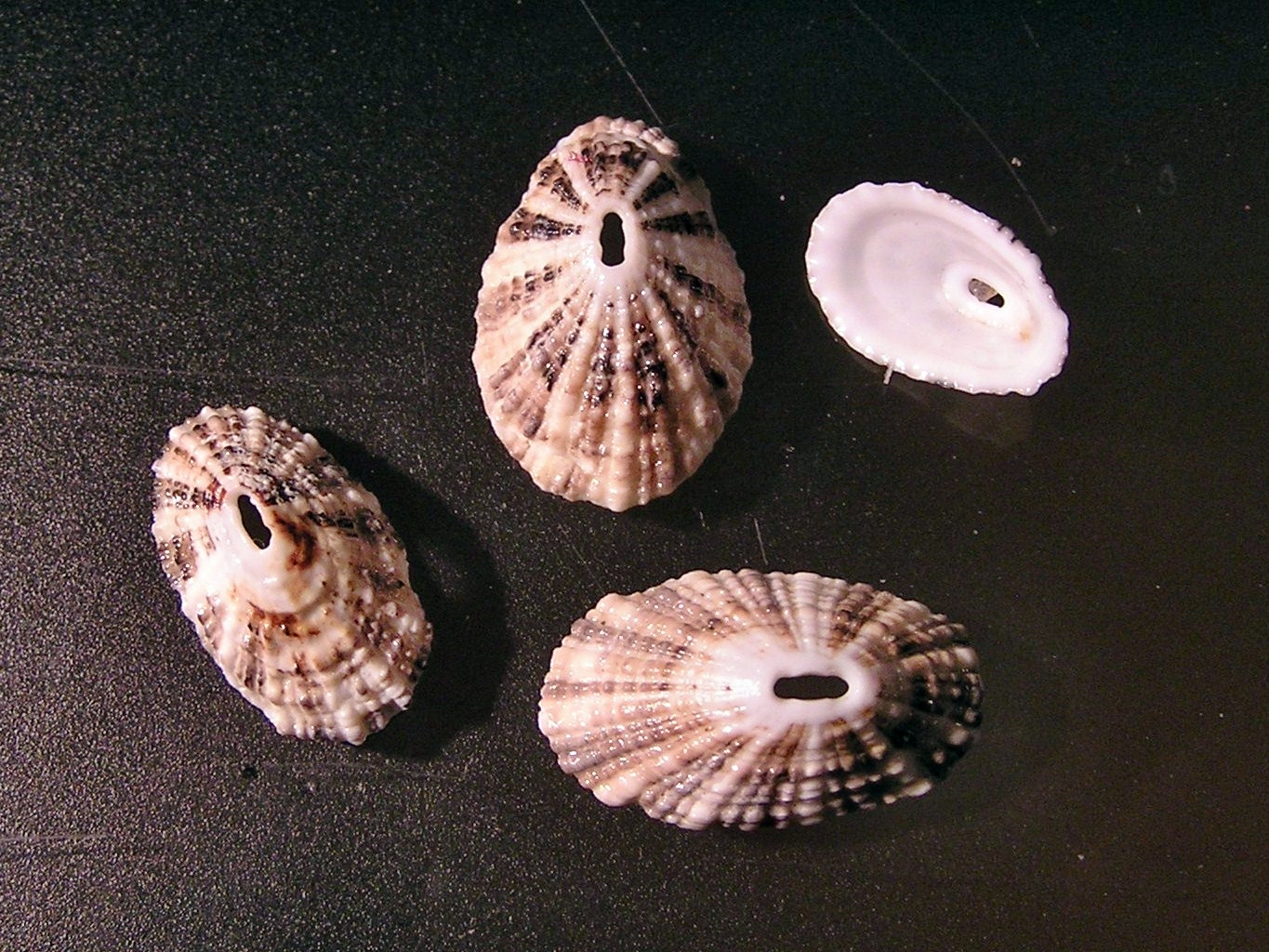 Fissurella natalensis Krauss, 1848 (synonym: Diodora natalensis, (C. F. Krauss, 1848) ); a keyhole limpet from the family Fissurellidae; South Africa